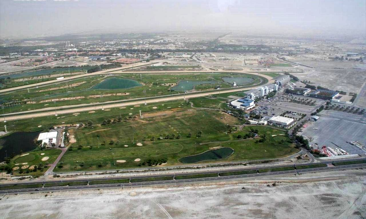 This is a photo showing the Nad Al Sheba Racecourse in Dubai, United Arab Emirates as seen from the air on 1 May 2007.